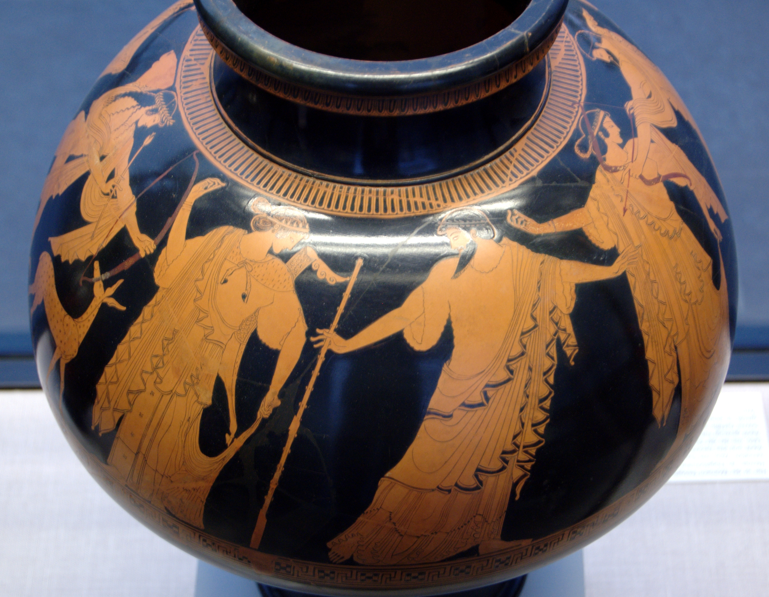 Rape of Marpessa: Apollo (left, with Artemis) and Idas (right, with Marpessa) are separated by Zeus. Attic red-figure psykter, ca. 480 BC. From Agrigento.